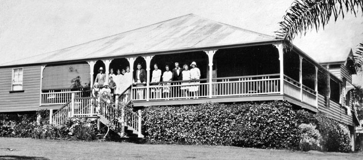 Boarding House, Buderim Mountain. (The original photograph caption makes reference to N C [North Coast] Line.)